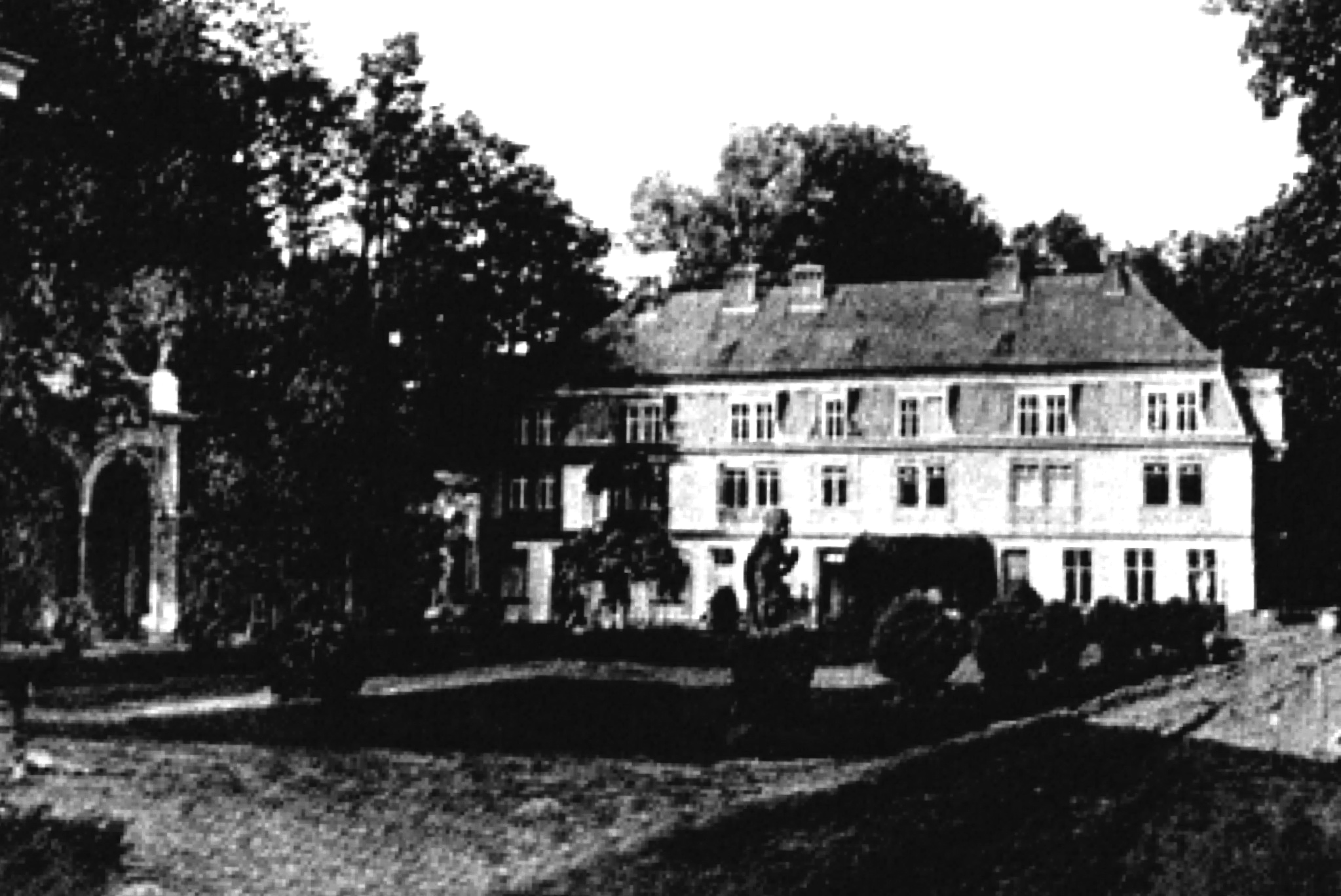 Mansion of Hermann Killisch-Horn (1821–1886) in Pankow near Berlin, circa 1900. The park was created by Wilhelm Perring (1838–1906).